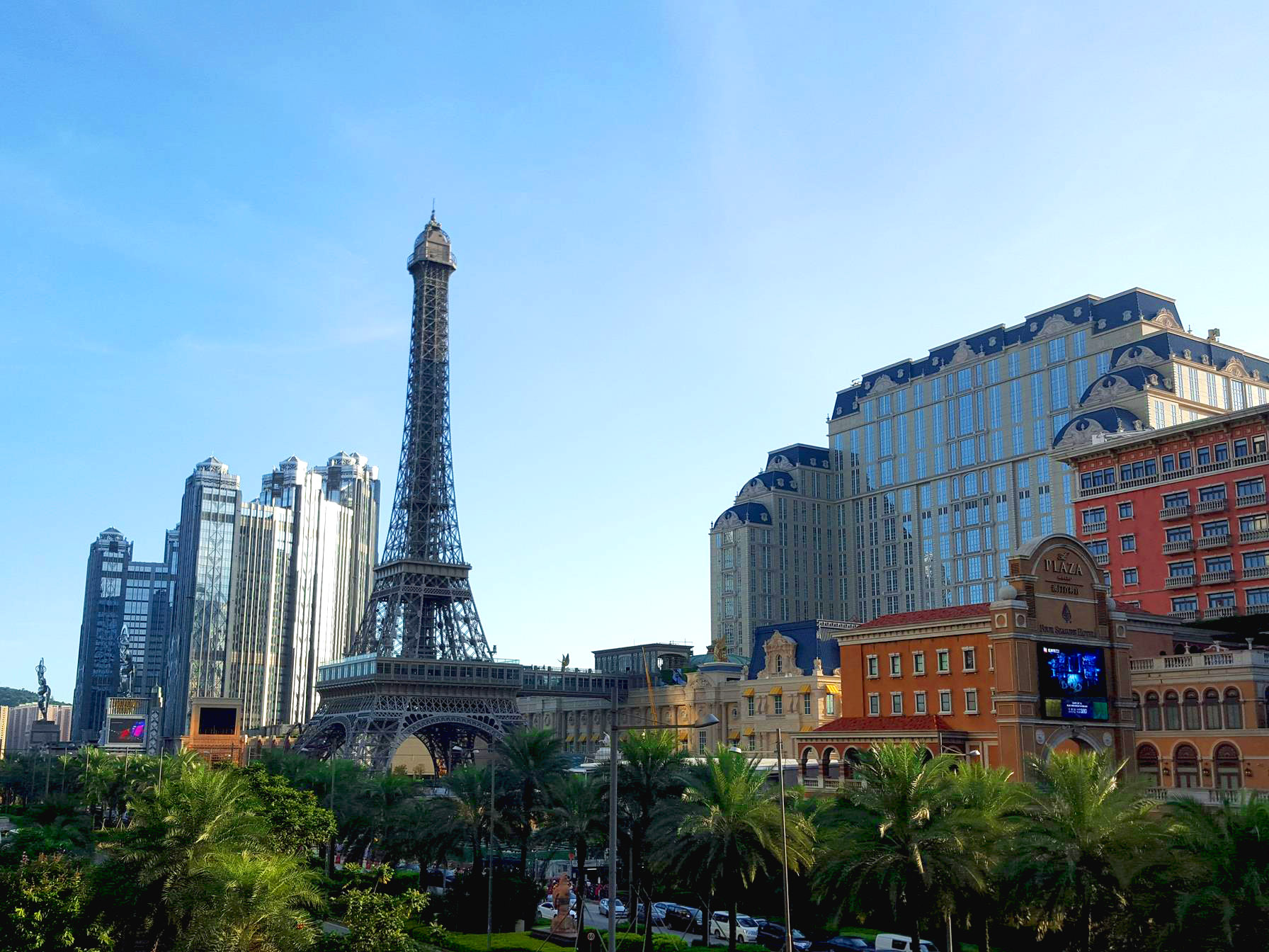 The Parisian